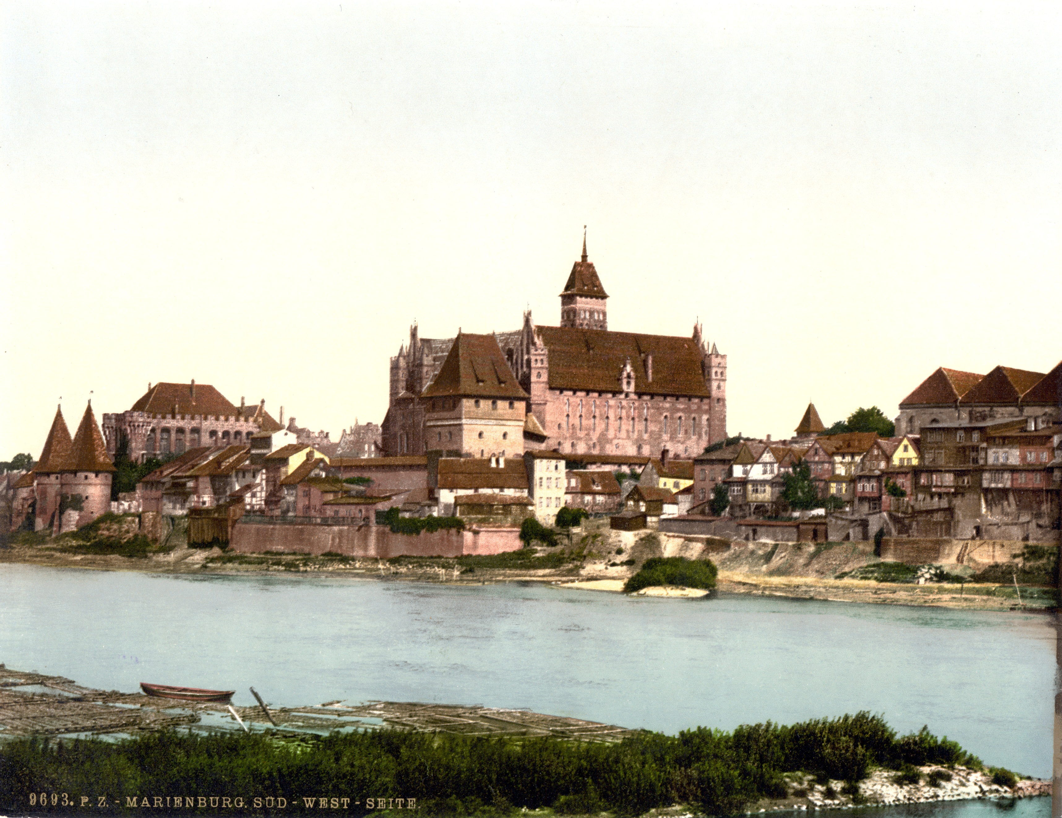 Castle Marienburg - southwest side